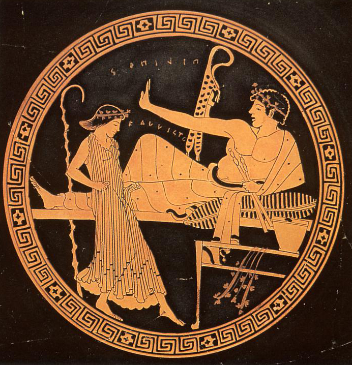 Symposium scene: a reclining youth holds an aulos in one hand and gives another one to a female dancer. Tondo from an Attic red-figured kylix, ca. 490-480 BC. From Vulci.